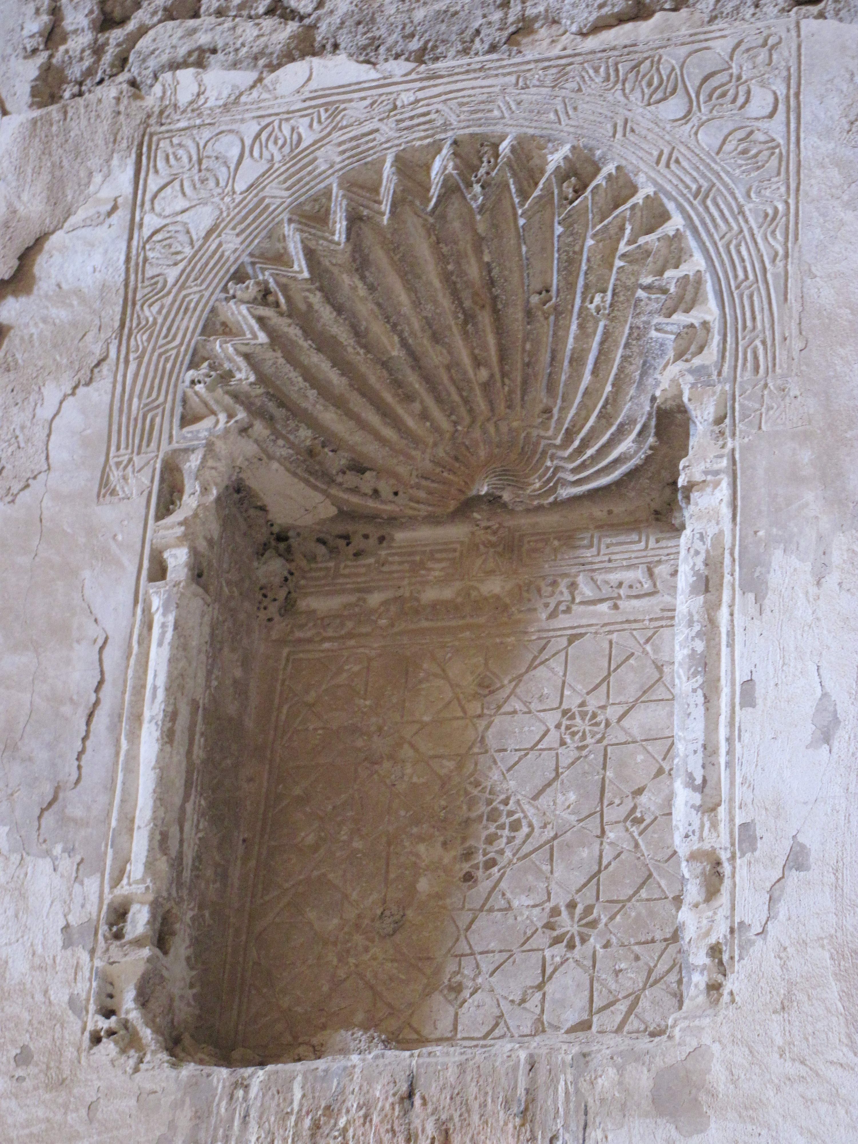 One of the ornate wall carvings in former monastery at Dair Mar Elia.